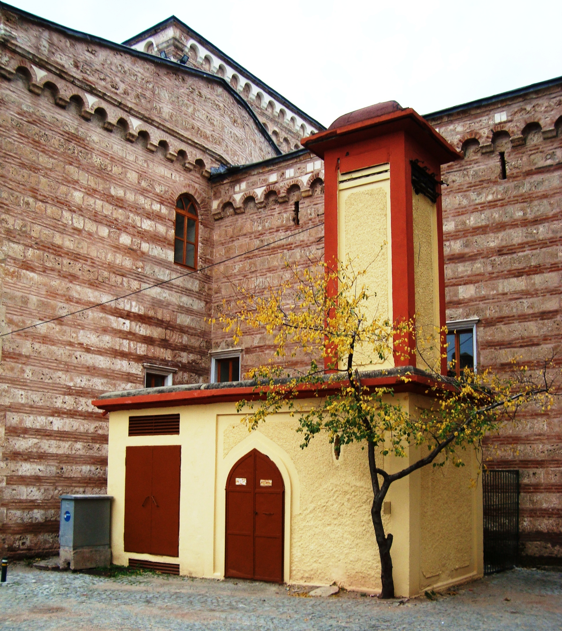 ELEKTRİK TRAFO-NOSTALJİK